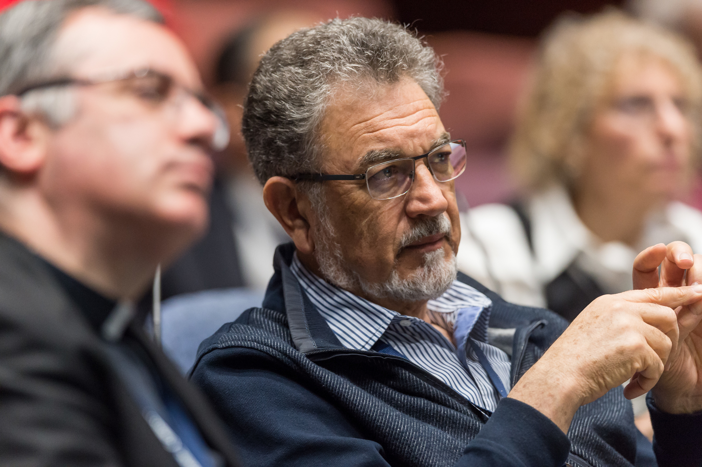 Attending conference on the Quest for Consonance in Religion and the Natural Sciences